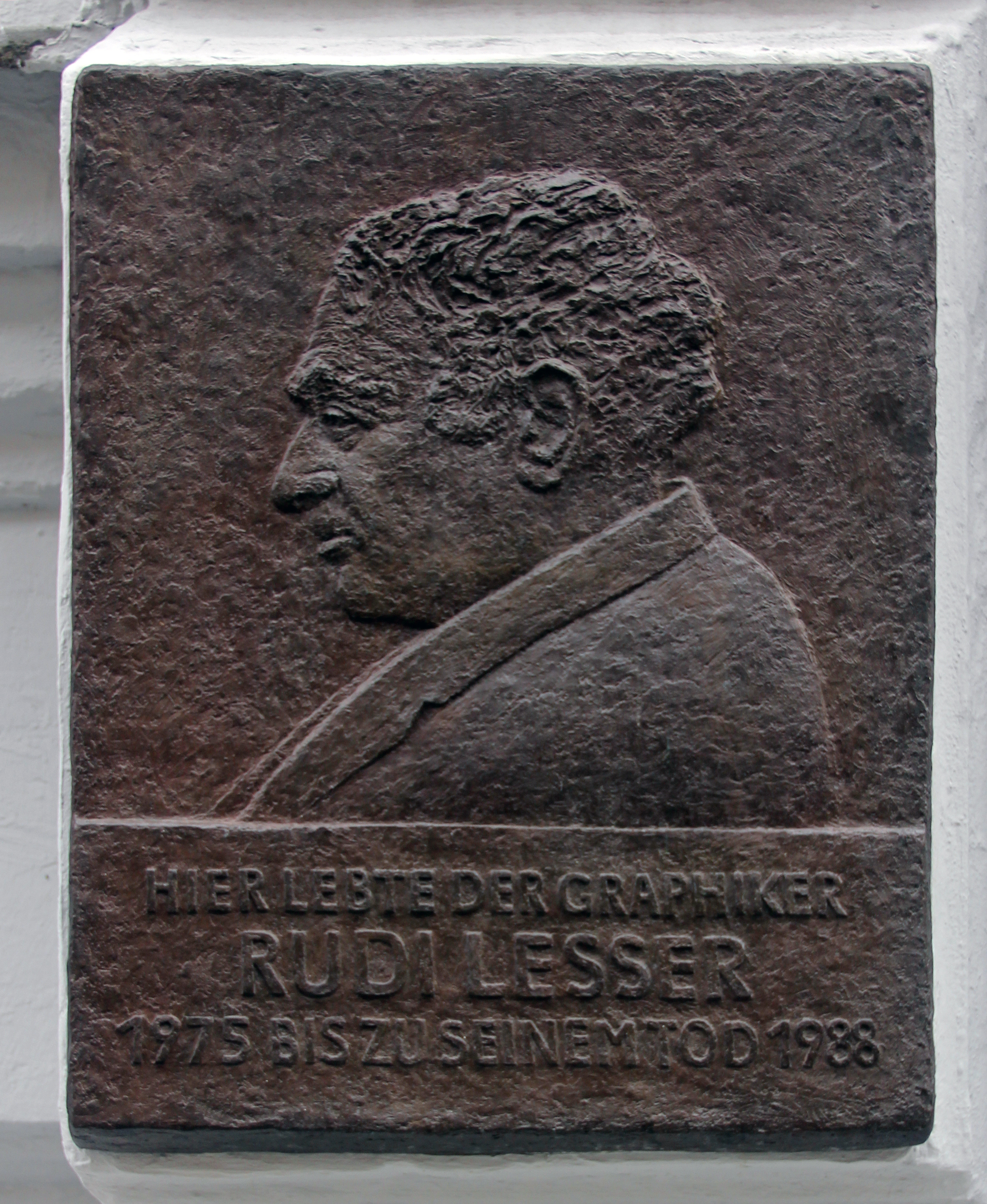 Memorial plaque, Rudi Lesser, Solmsstraße 33, Berlin-Kreuzberg, Deutschland